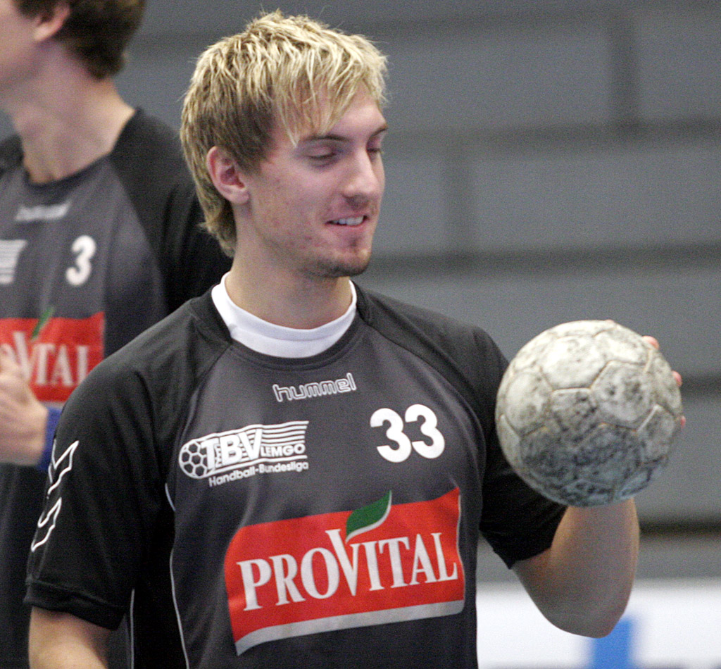 Marc Hafner, handball player of TBV Lemgo (Germany), in the Lipperlandhalle during the match TBV Lemgo vers. Wilhelmshavener HV on October 13th, 2007